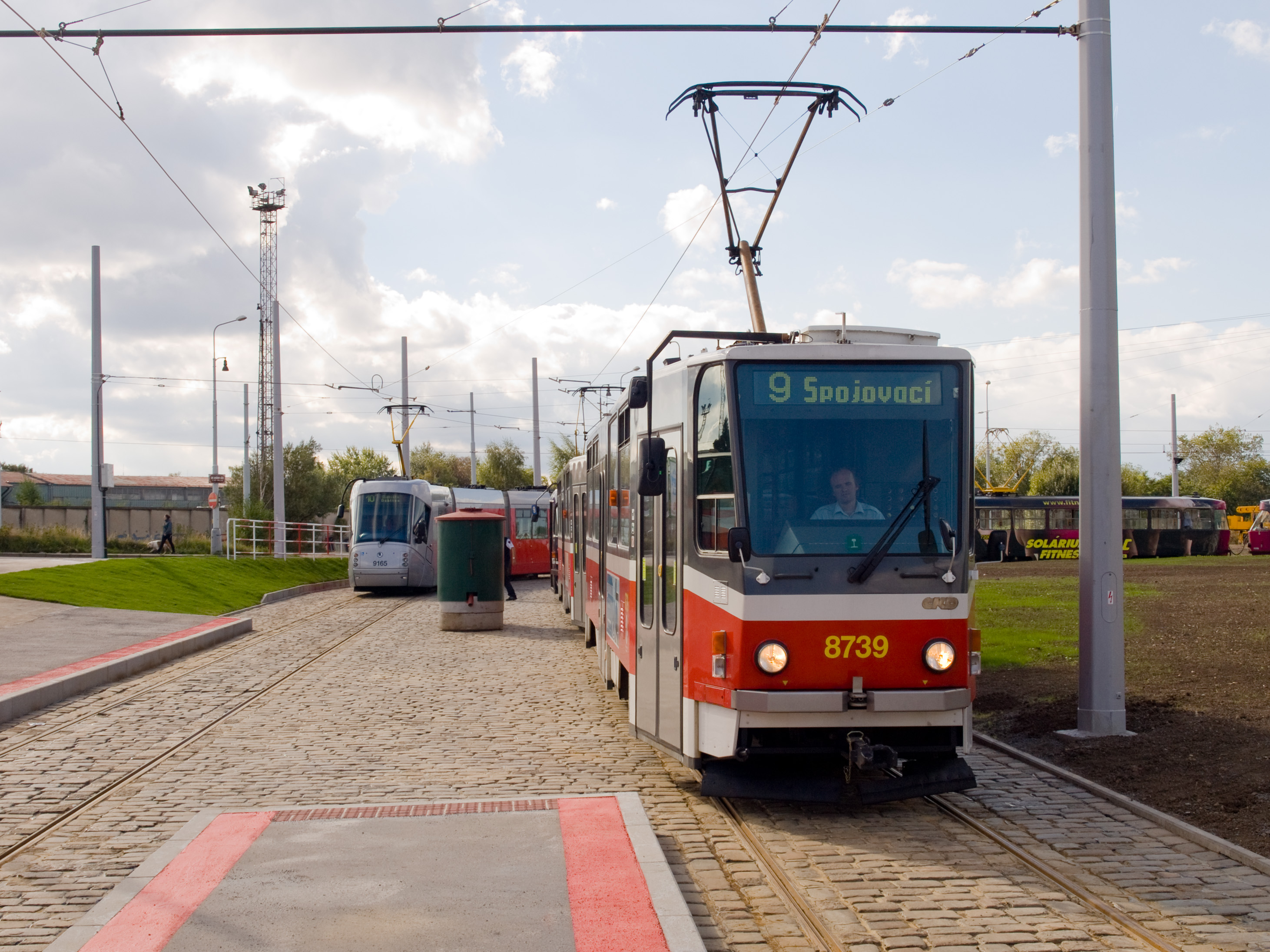 Tram loop Sídliště Řepy